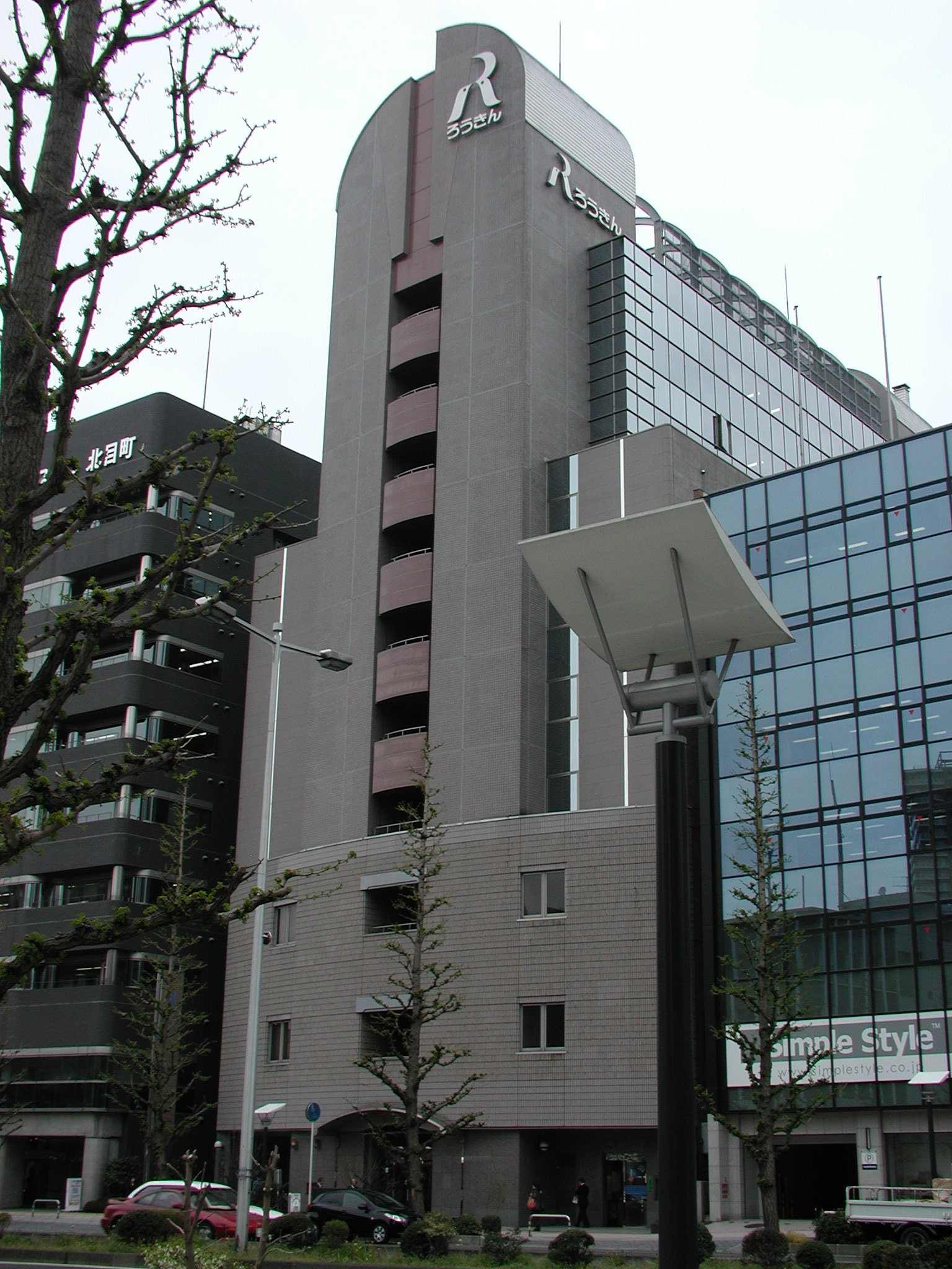 Tohoku Labor Bank Head Shops